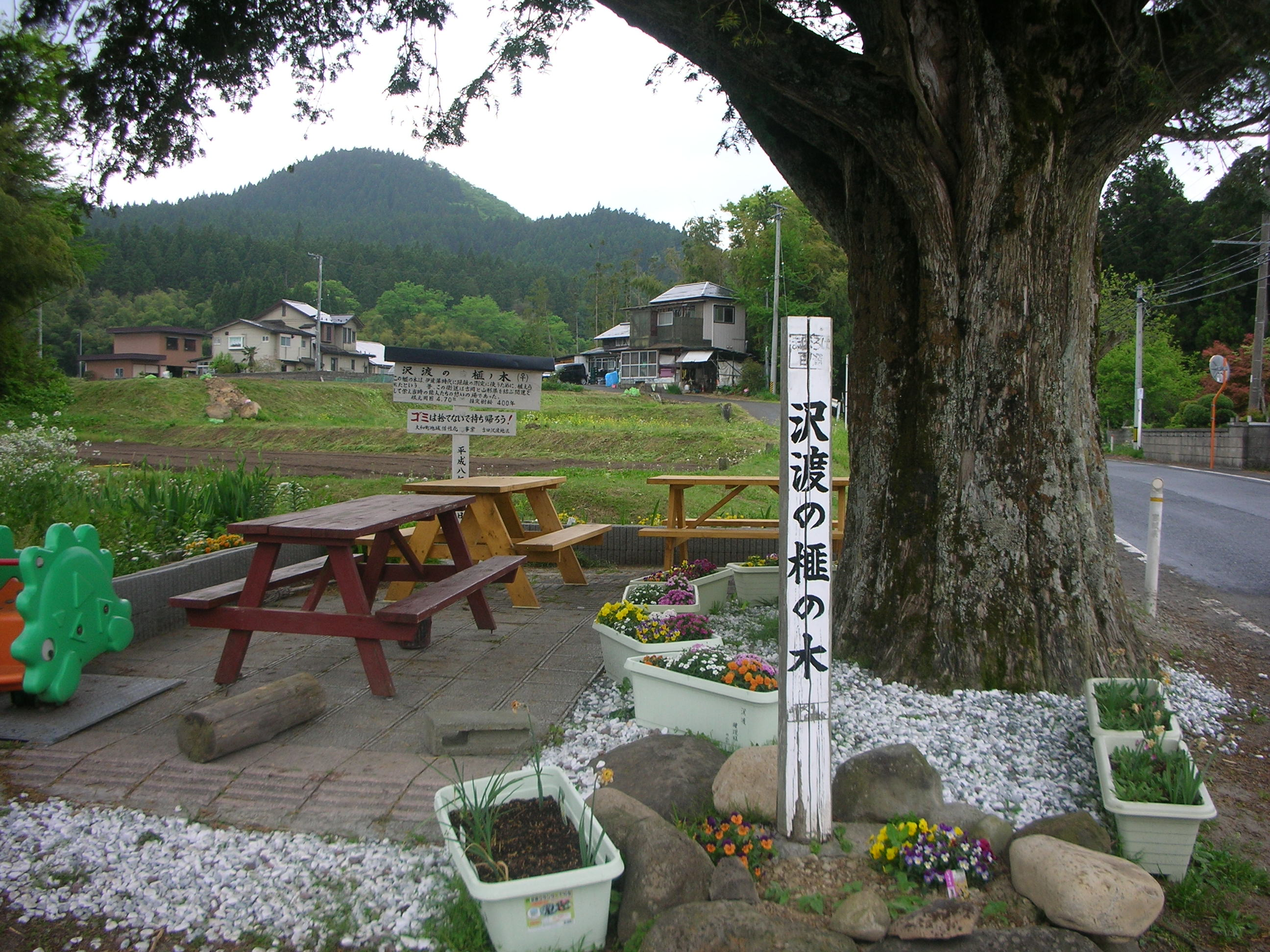 Sawatari no Kaya no ki ("Torreya tree of Sawatari")